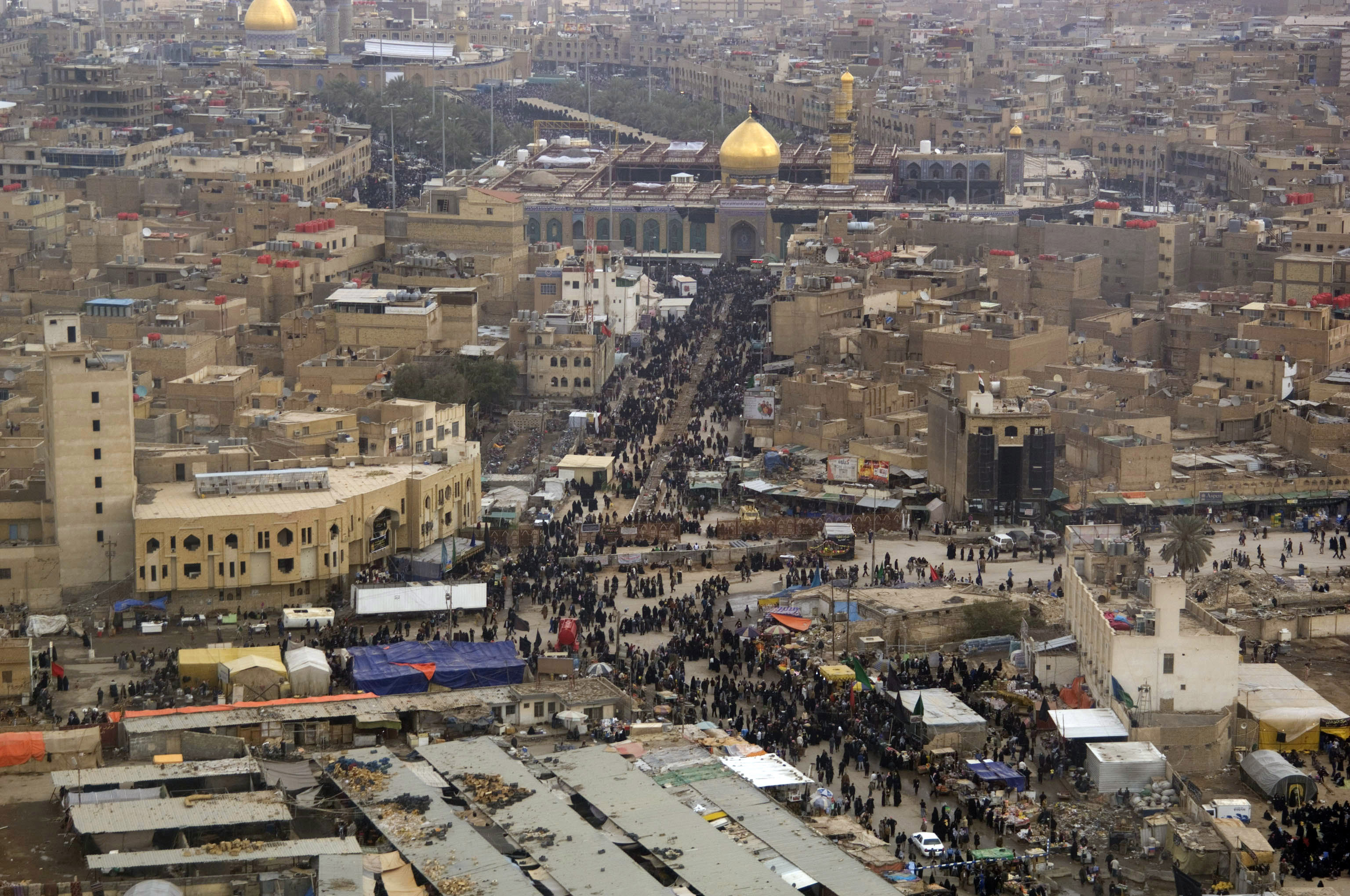 Feb. 27, 2008 - Shi'a and Sunni Muslims make their way to the Imam Husayn Shrine in Karbala, Iraq, Feb. 27, 2008, during their pilgrimage in observance of the Arba'een and Ashura holidays. Only since the removal of Saddam Hussein have Iraqis been able to take part in the pilgrimage. (U.S. Navy photo by Petty Officer 1st Class Denny C. Cantrell)